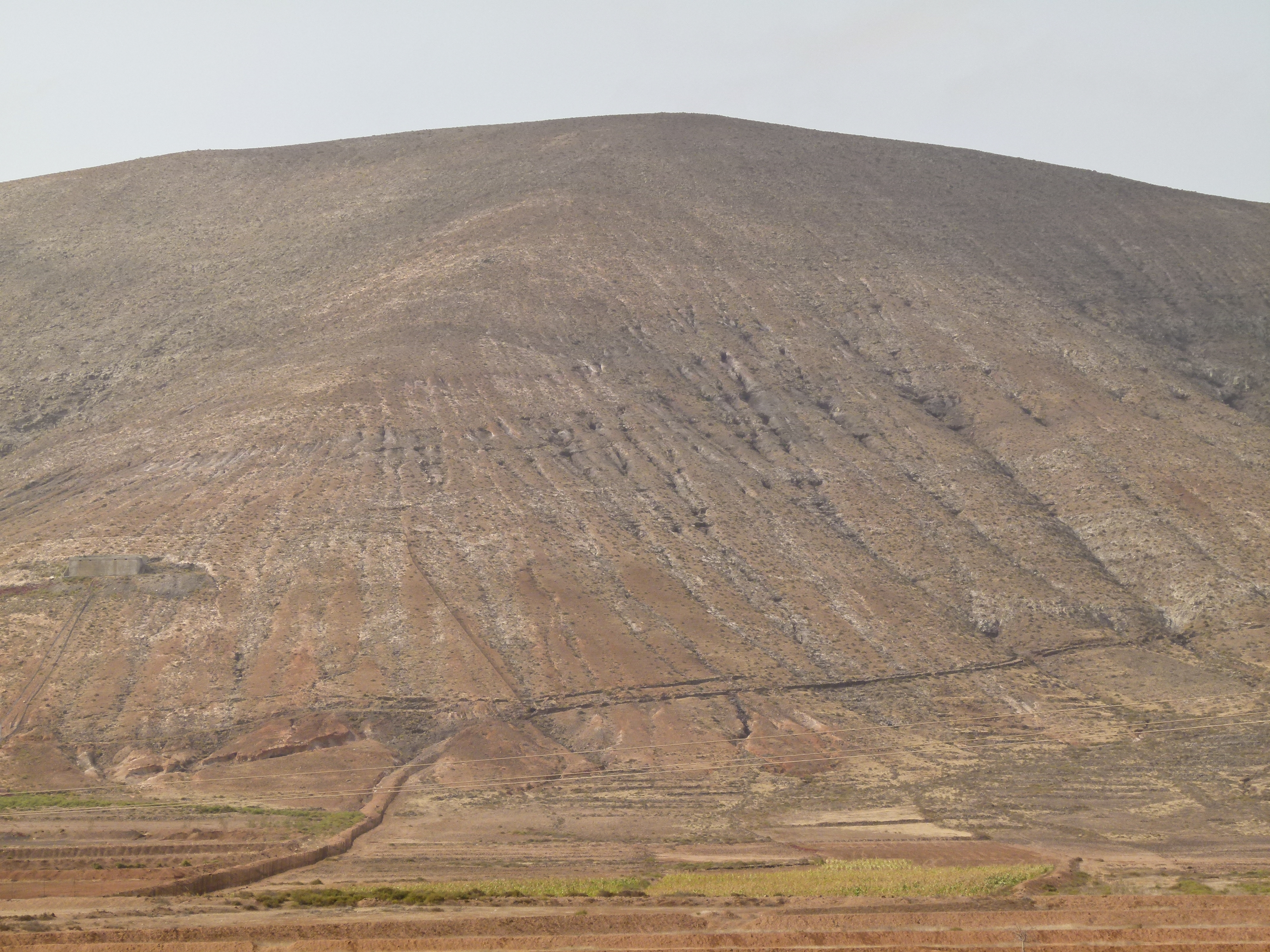 View south from the Casa de Los Coroneles, La Oliva, Fuerteventura, Canary Islands, Spain